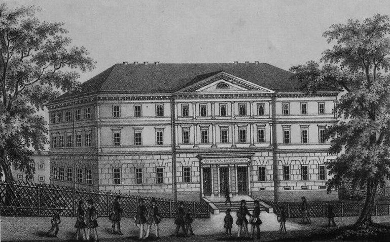 Picture of the gymnasium Ernestinum Gotha in the 19th century.